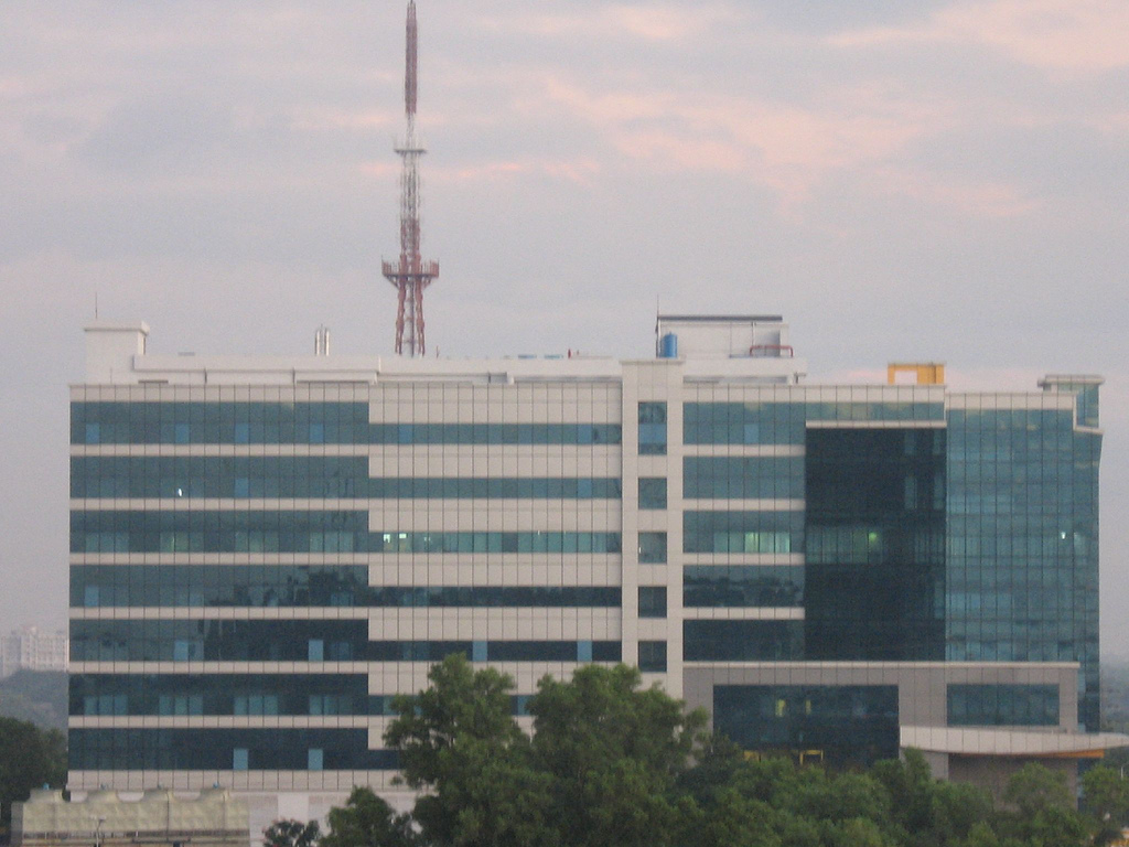 Technopolis building, Kakkanad, India